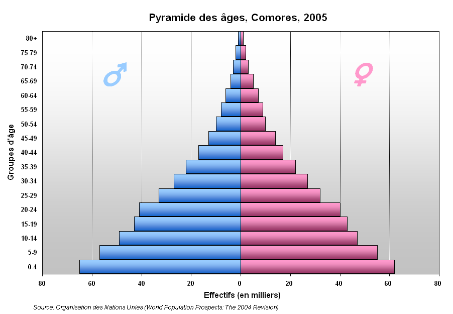 Comoros Population pyramid, 2005